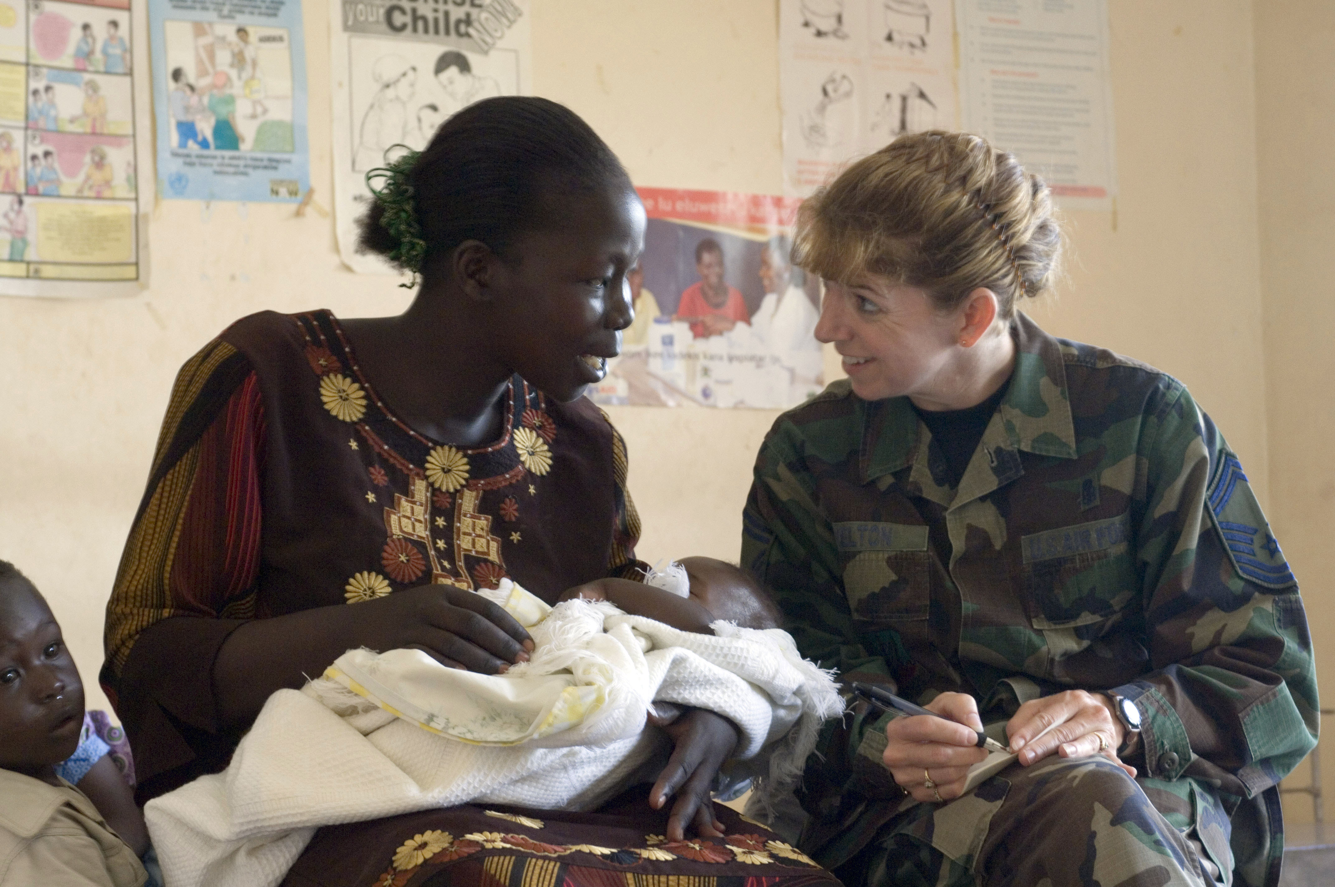 U.S. Air Force Senior Master Sgt. Donna Shelton (right) speaks with a Ugandan woman waiting to see a doctor at the Muslim health clinic in Soroti, Uganda, on Aug. 15, 2006, during exercise Natural Fire 2006. The exercise consists of military-to-military training as well as medical, veterinary, and engineering civic affairs programs conducted in rural areas throughout the region. Shelton is an international health specialist assigned to Detachment 2, 311th Human Systems Wing.